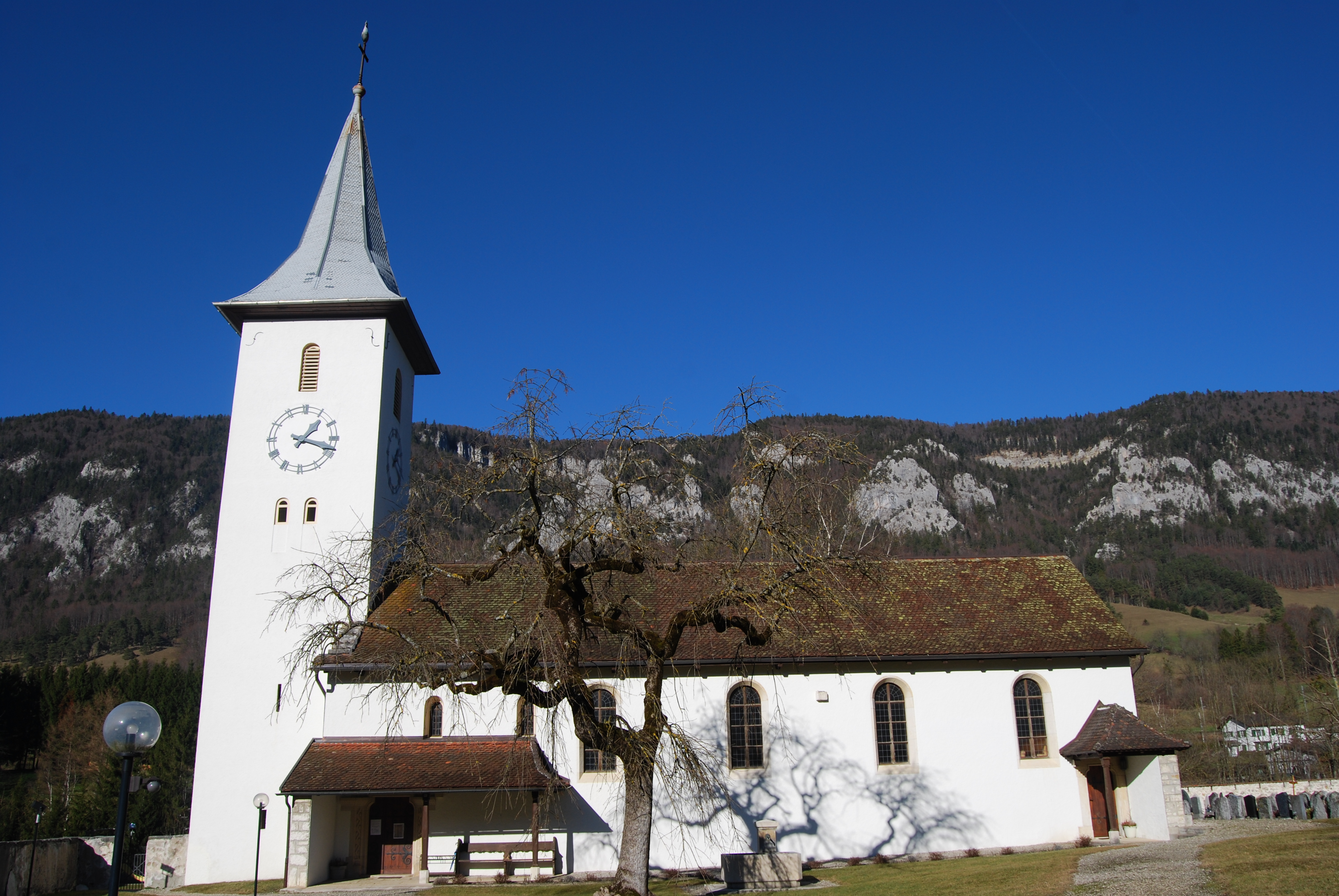 Church of Grandval, canton of Bern, Switzerland